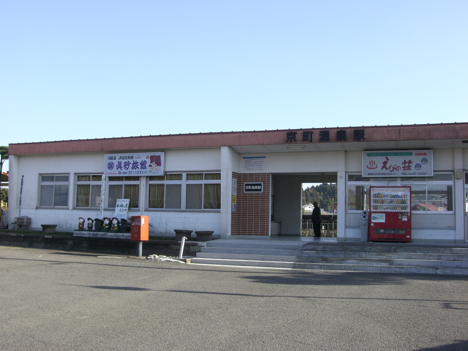 Kyomachi-Onsen Station, Kitto Line, JR Kyushu